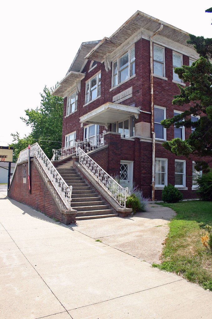 Photo of the old city hall, now a museum, in Eldorado Il